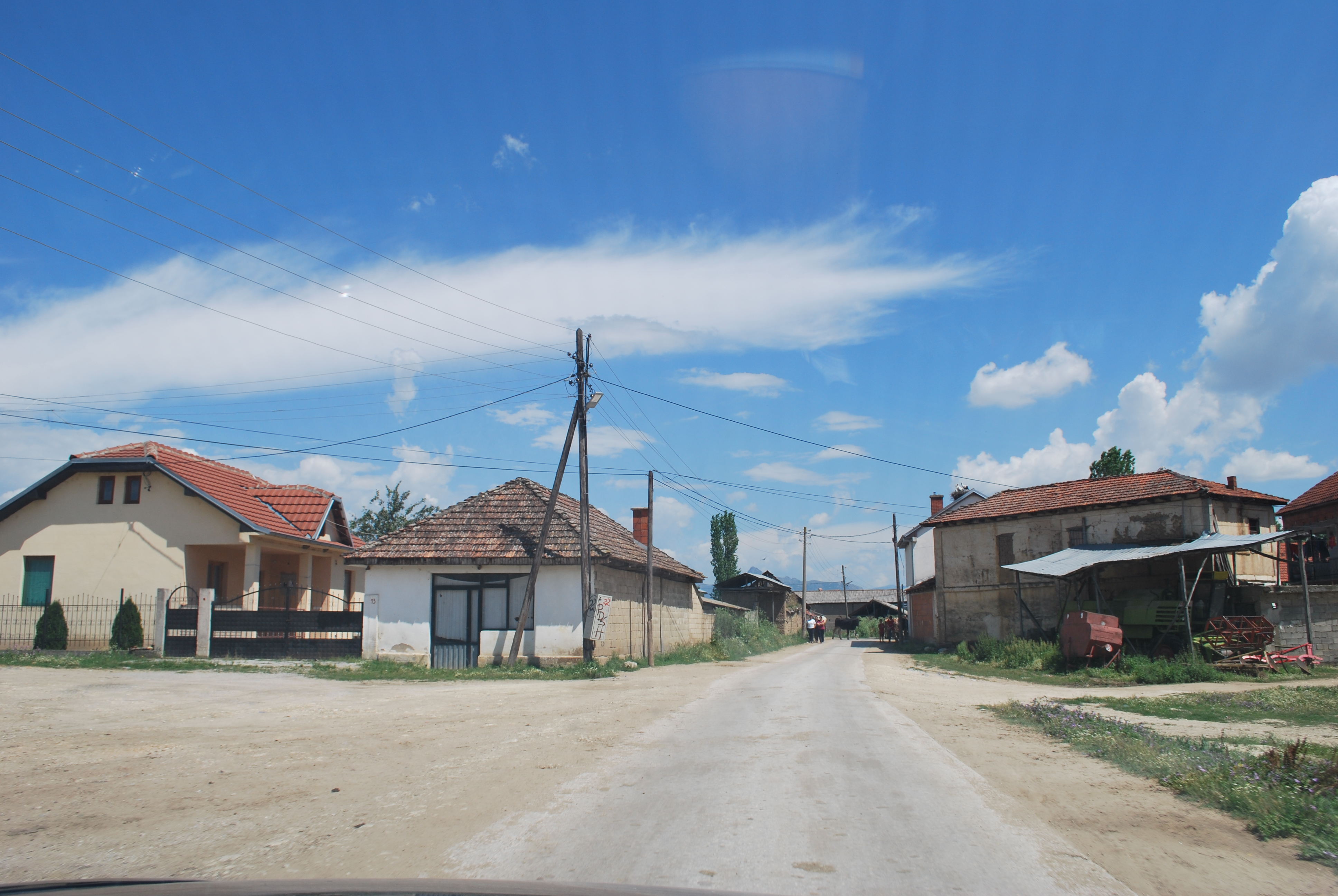 Peštalevo near Prilep, Macedonia